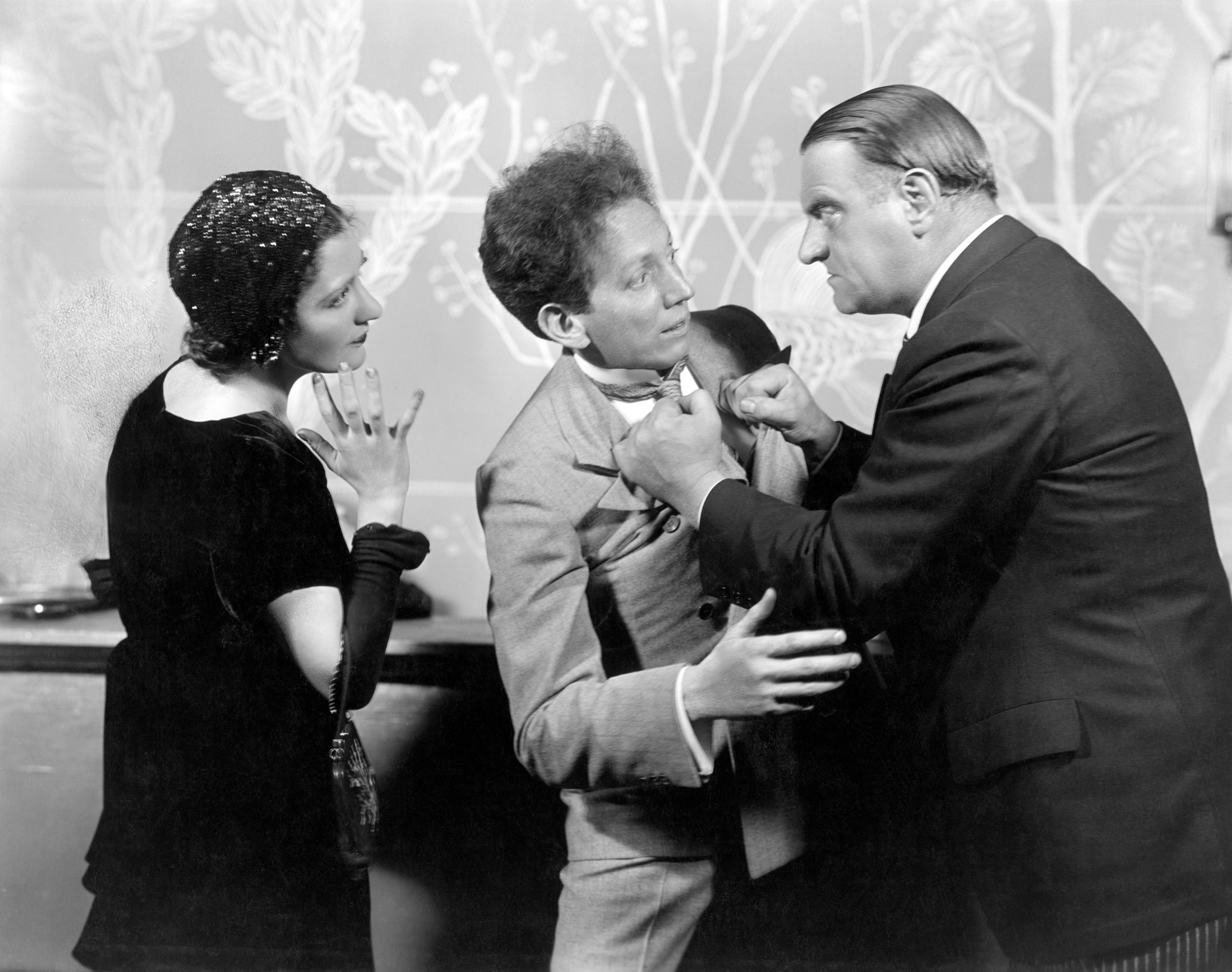 Promotional photograph of Hortense Alden, Sam Jaffe and Siegfried Rumann (Sig Ruman) in the original Broadway production of Grand Hotel Caption reads as follows:Kringelein is a poor clerk, doomed to early death by a bad heart, who has come to Berlin with his savings for a last fling. Preysing encounters him with Flaemmchen, a stenographer